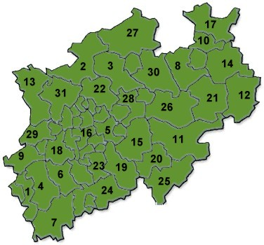 Districts of North Rhine-Westphalia.